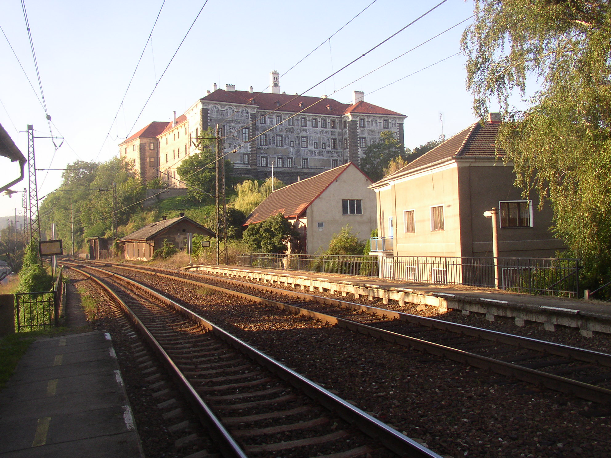 Castle in Nelahozeves, Czech Republic. View from the north-east, from the railway station "Nelahozeves zámek" (Nelahozeves-castle).